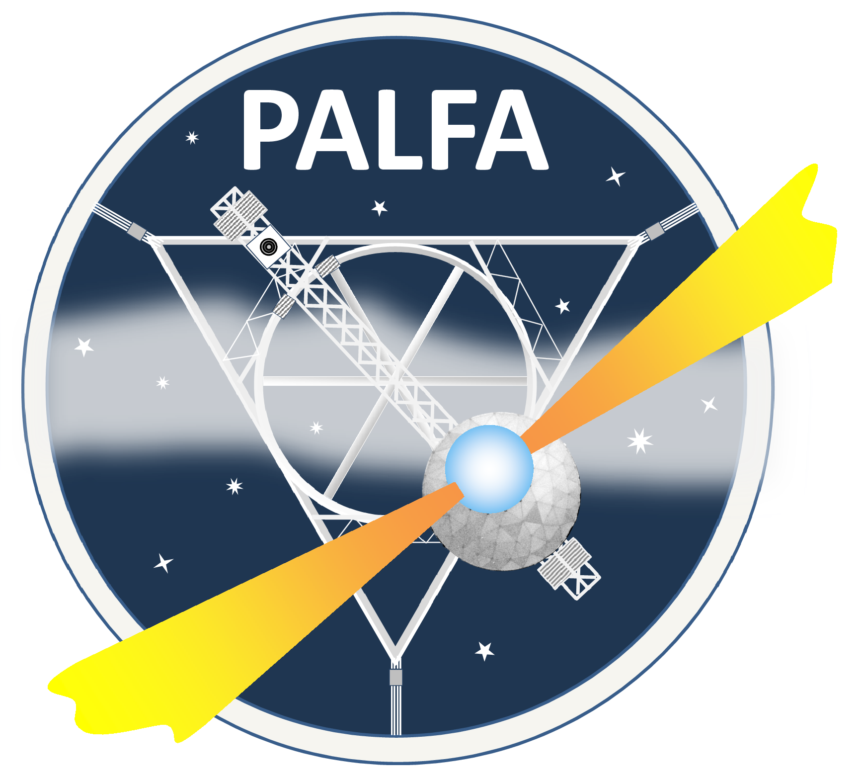 The official logo of the PALFA survey